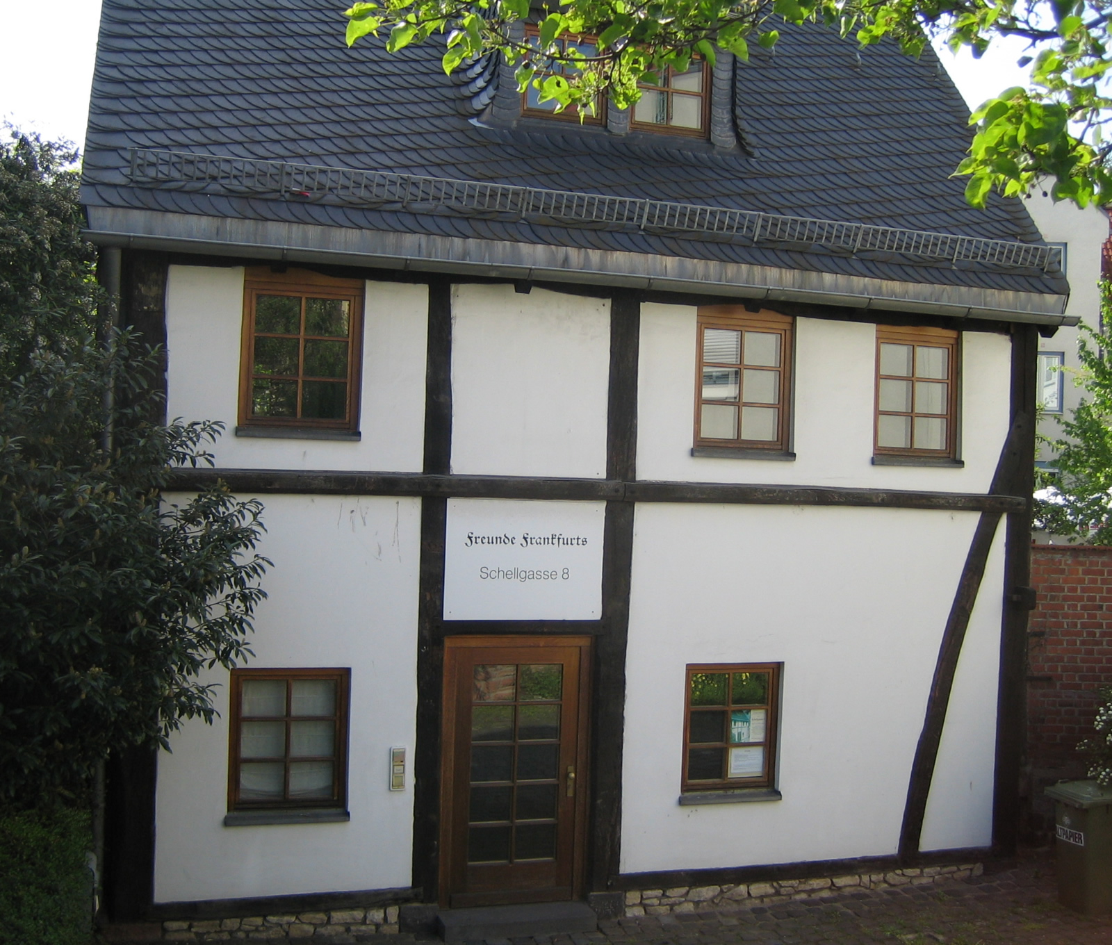 "Schellgasse 8". Built in 1291, it’s the oldest existent timbered house in Frankfurt, Main and one of the oldest existent timbered houses in Germany. Today, it’s the domicile of "Freunde Frankfurts - Verein zur Pflege Frankfurter Tradition e.V." [1]